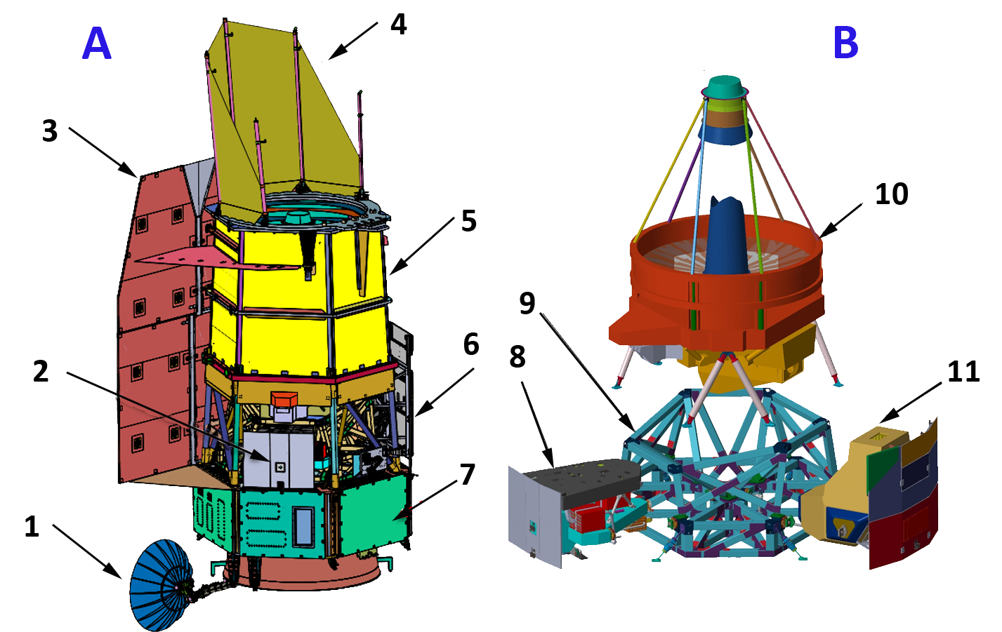 WFIRST Diagram